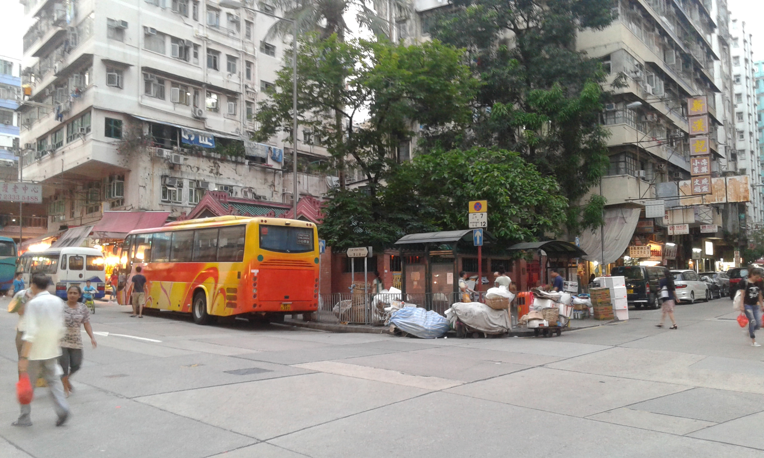 Tin Hau Temple, To Kwa Wan. Viewed at the corner of Lok Shan Road (left) and Ha Heung Road (right).